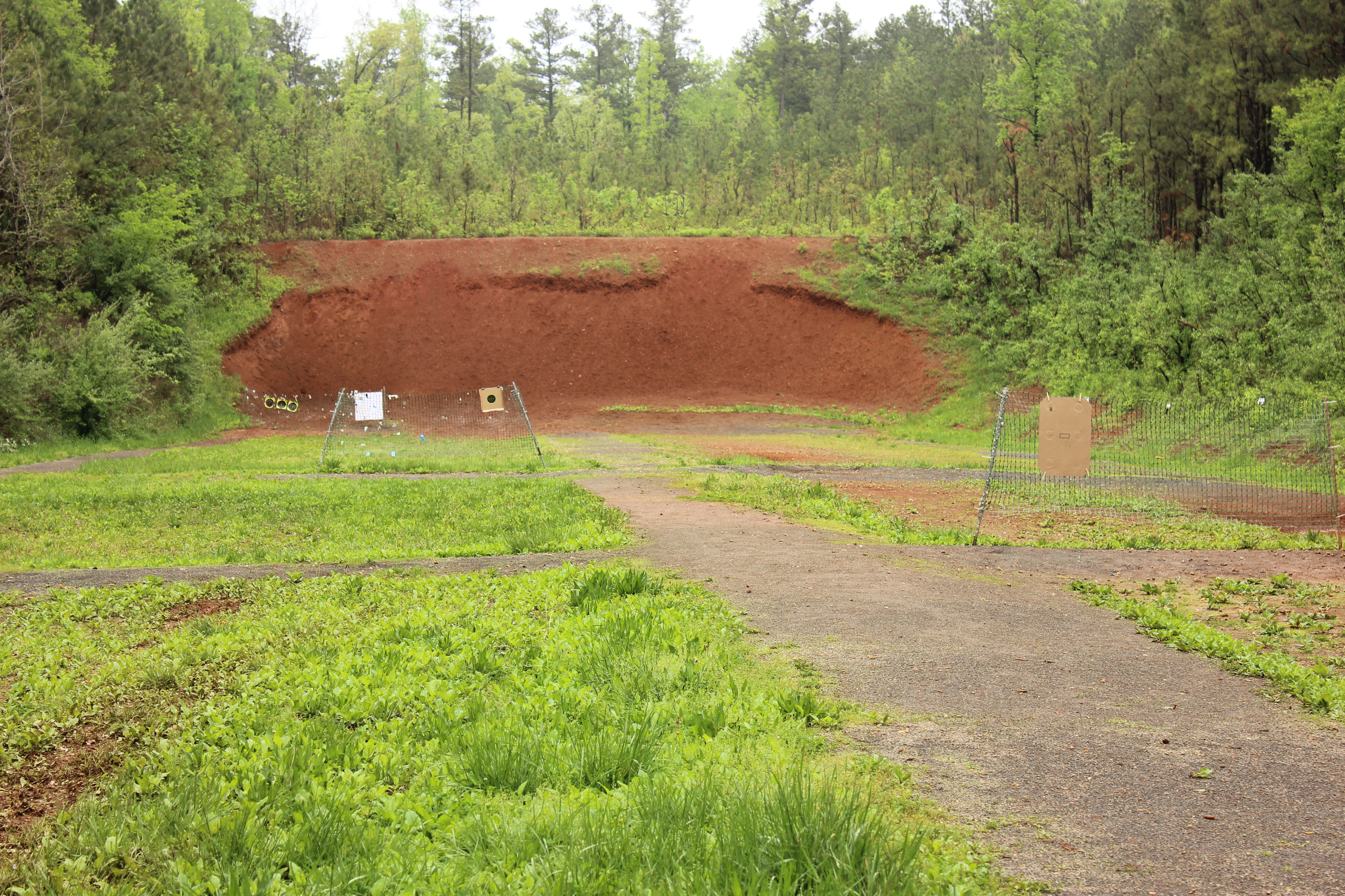 Gun range at 100 yards.